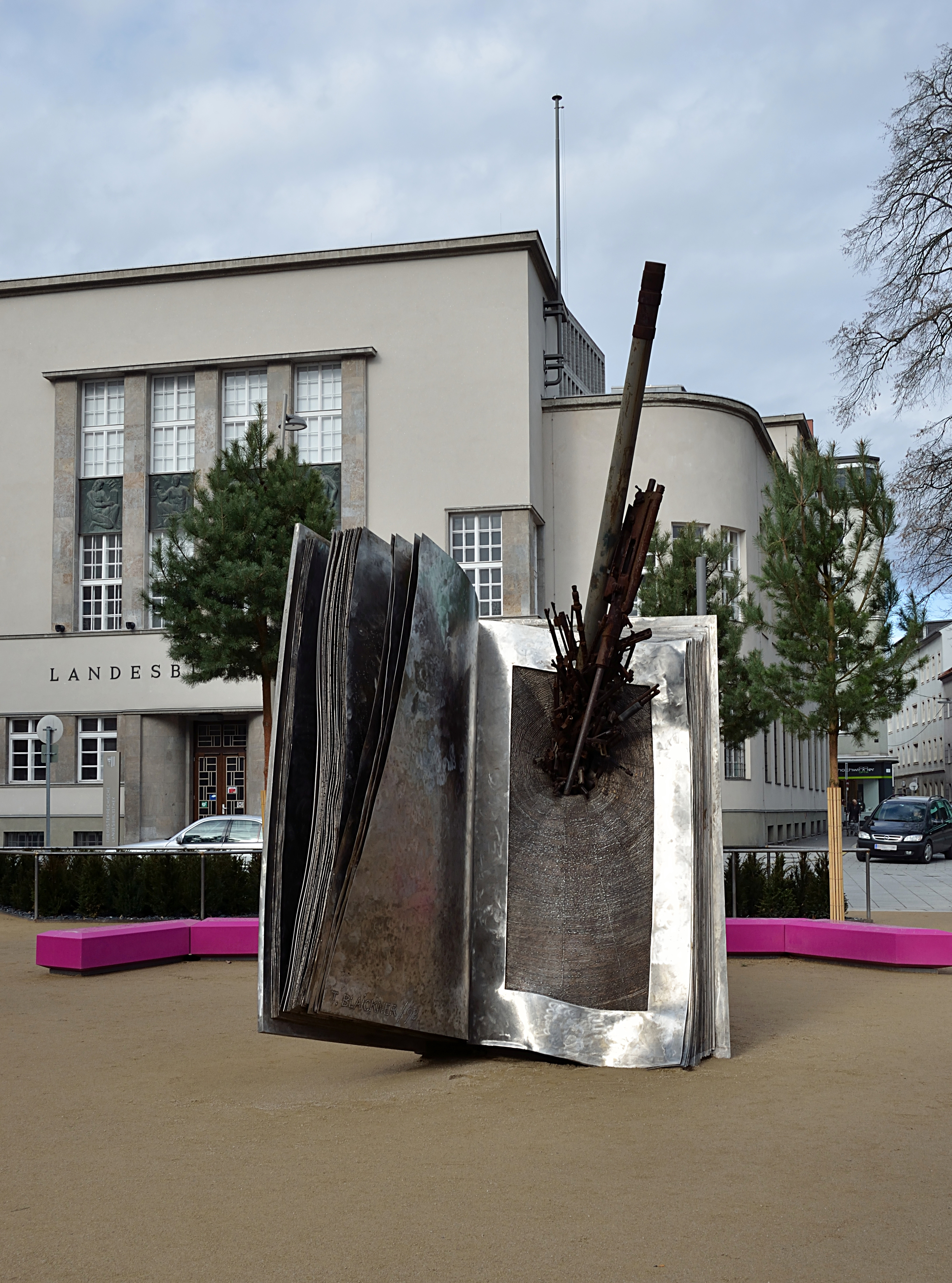 Das Andere Buch (the other book) by Theo Blaicker at the Schiller square at Linz, Upper Austria.